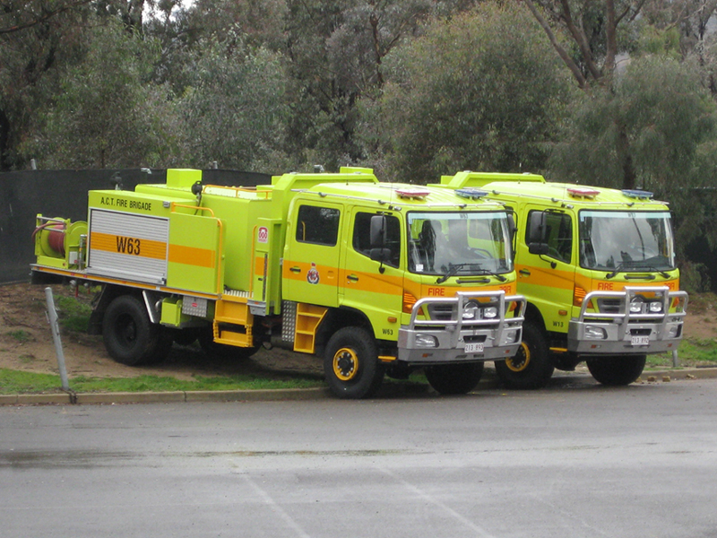 ACT Fire Brigade Hino Heavy Tankers in Canberra Australia. ACTFB currently has 3 of these tankers in the fleet.